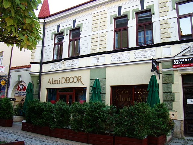 Bars in Sanok